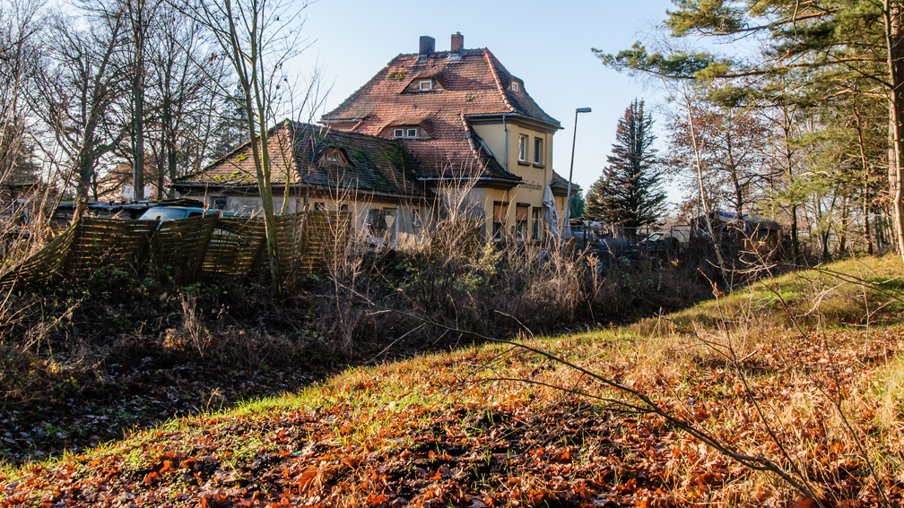 Old train station on the former Güsen – Ziesar line